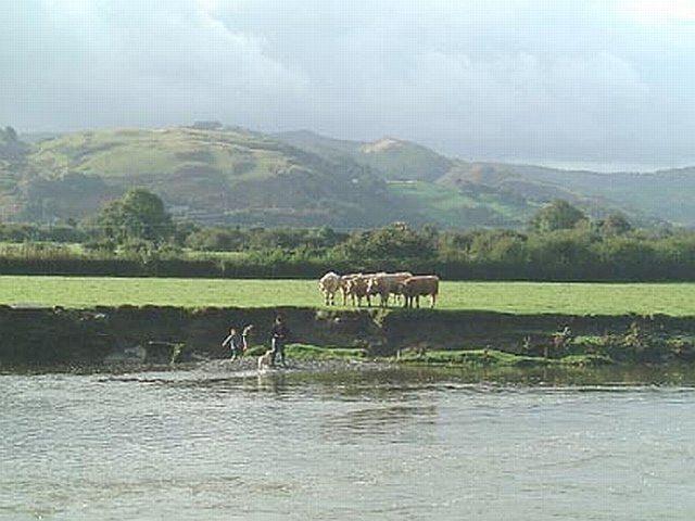 River Dyfi near Machynlleth